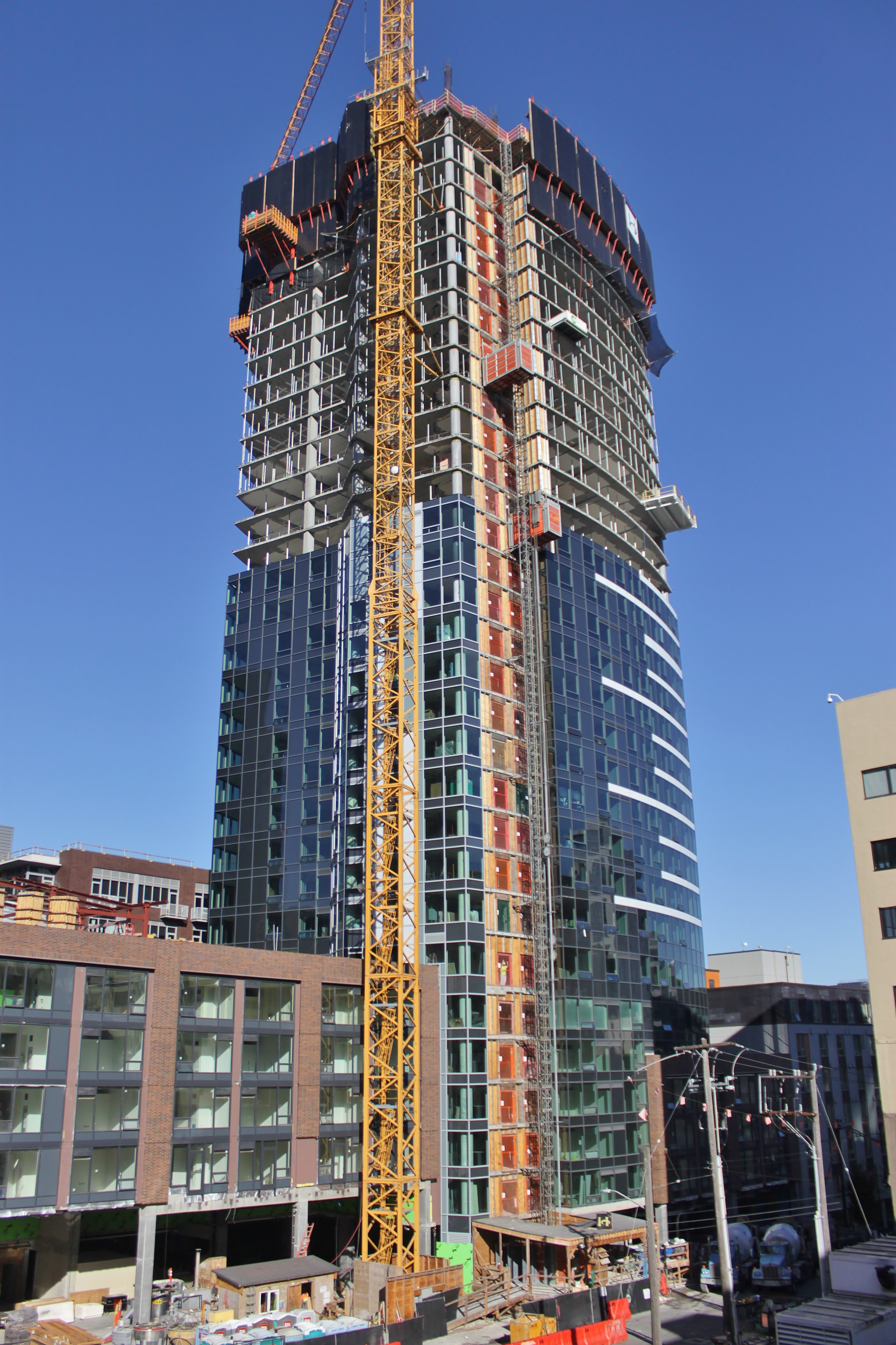 970 Denny Way, a residential high-rise in Seattle, Washington, seen under construction.